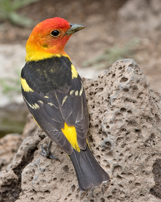 Western Tanager (Male), Piranga ludoviciana, Cabin Lake Viewing Blinds, Deschutes National Forest, Near Fort Rock, Oregon